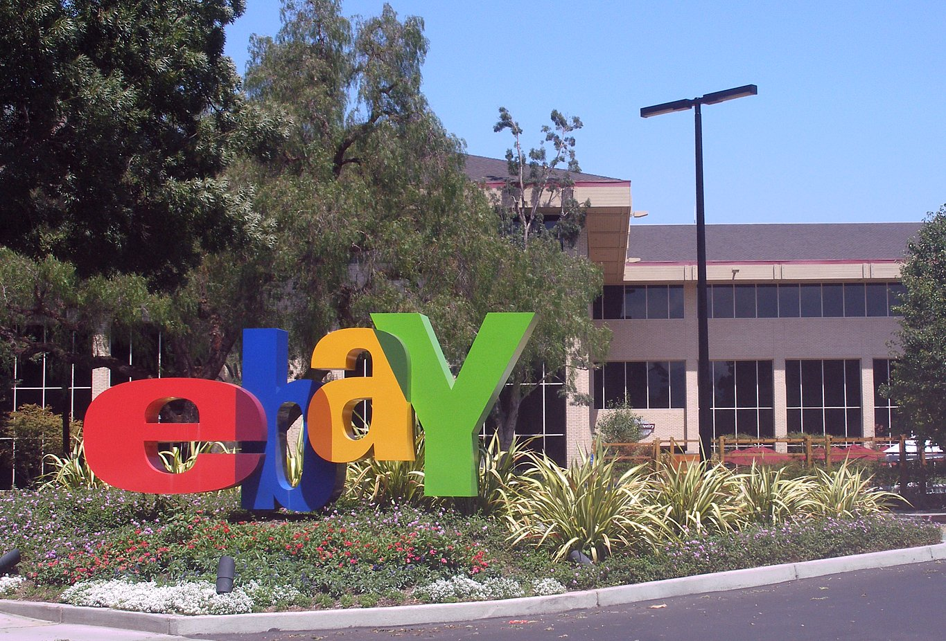 The headquarters of eBay in San Jose, California. Photographed on August 5, en:2006 by user Coolcaesar.